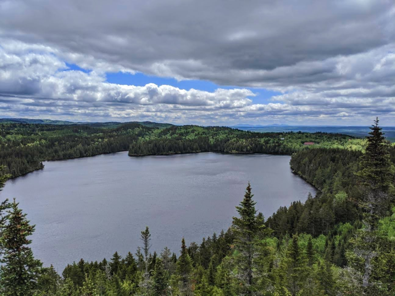 Cygnes Lake in Jaro ZEC, Saint-Théophile, Québec